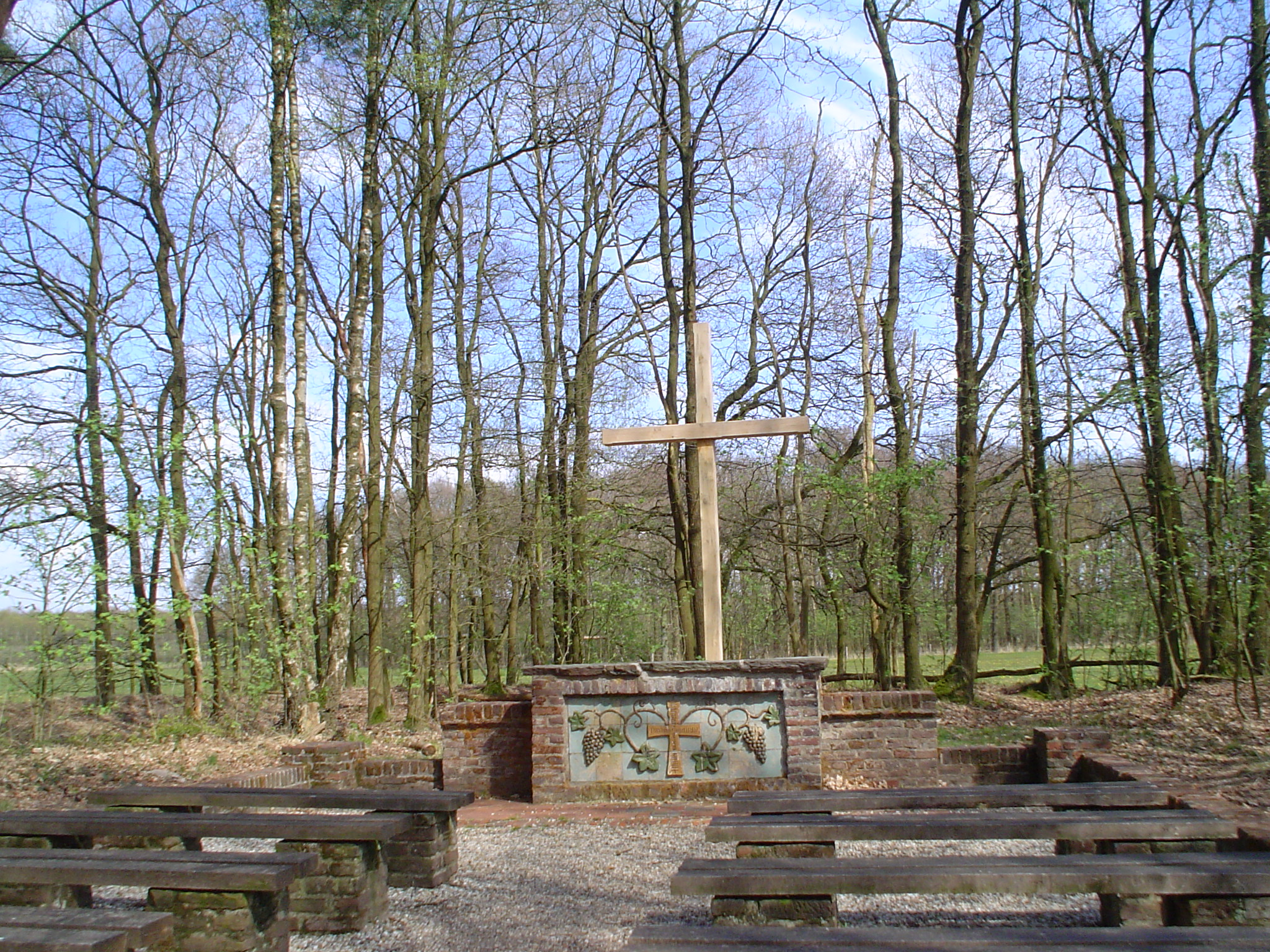 Monument on the location of a former open air church in the Weerterbos near Nederweert, Netherlands.